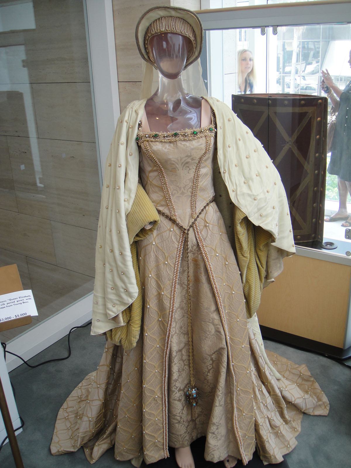 Jean Simmons "Queen Elizabeth I" silk gown, hat, and cape from "Young Bess" at the Debbie Reynolds Auction Breaks Up Historic Hollywood Collection (The Paley Center for Media in Beverly Hills, Los Angeles, CA, USA).